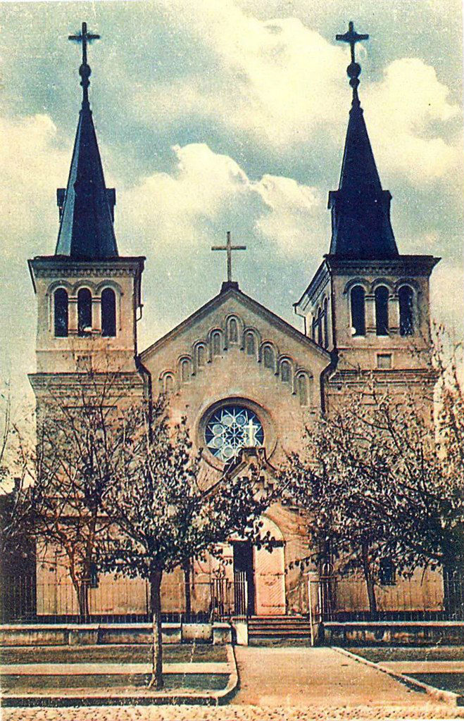 Екатеринославъ. Храмы/ Начала 20 века.